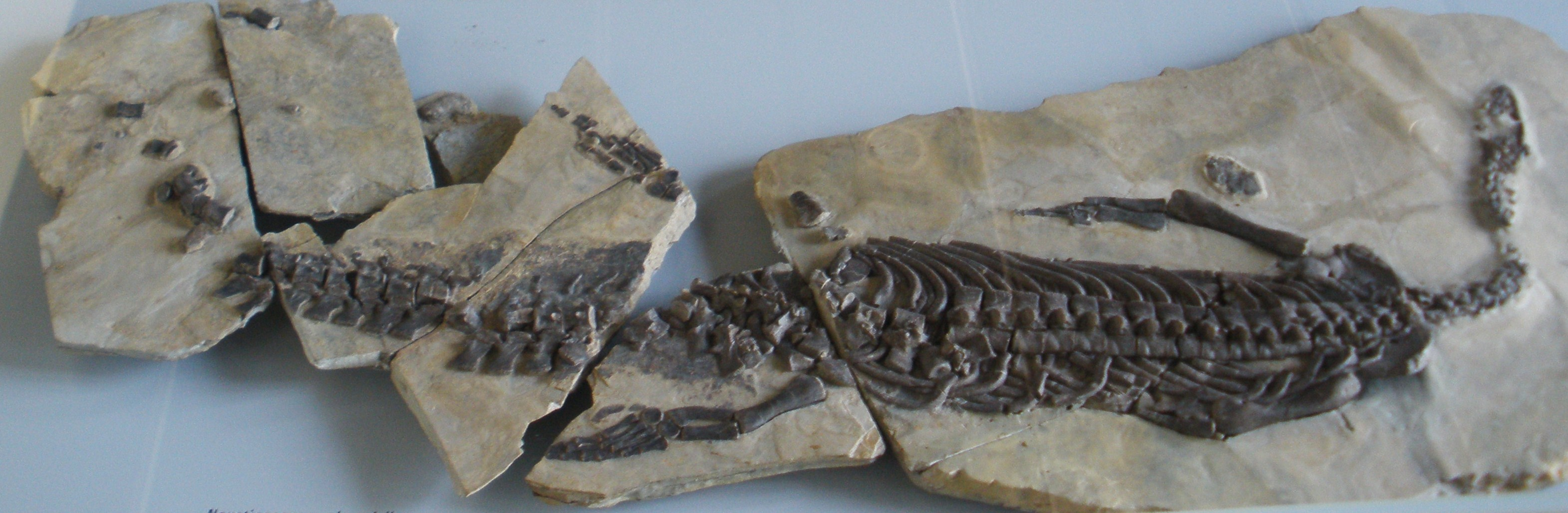 fossil neusticosaurus